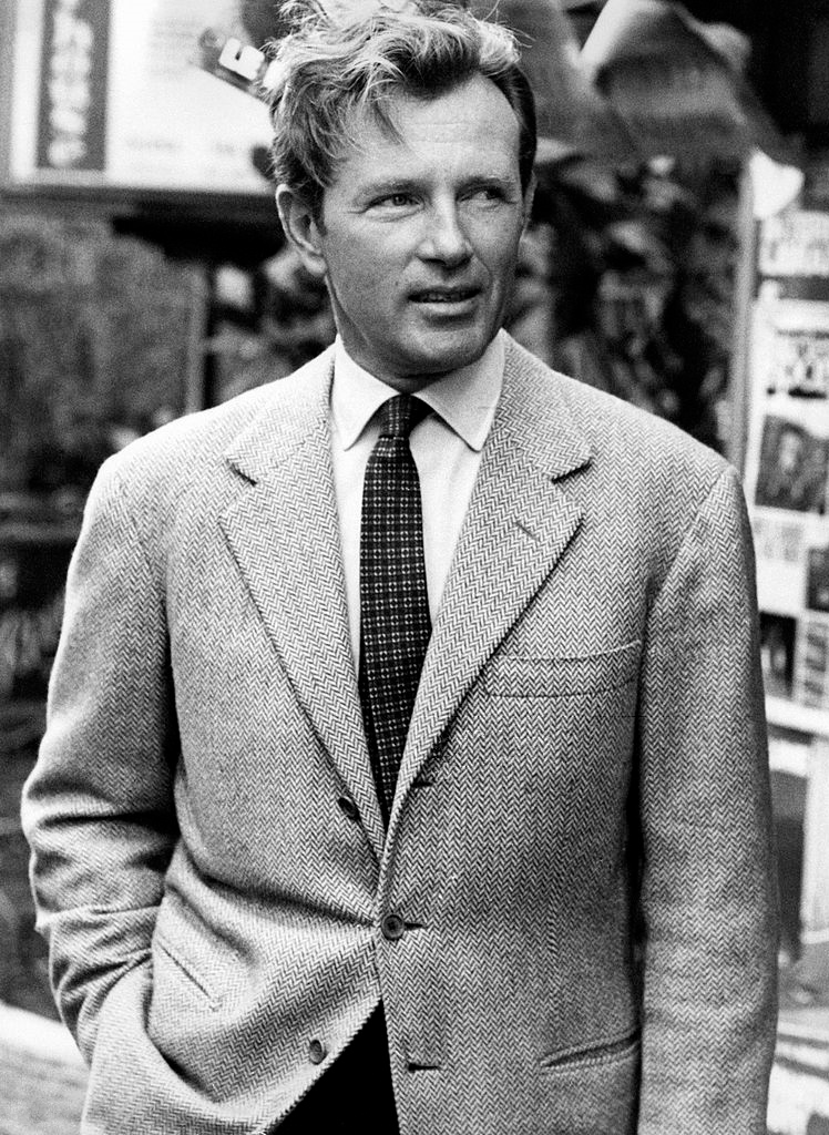 Jacques Sernas in Italy